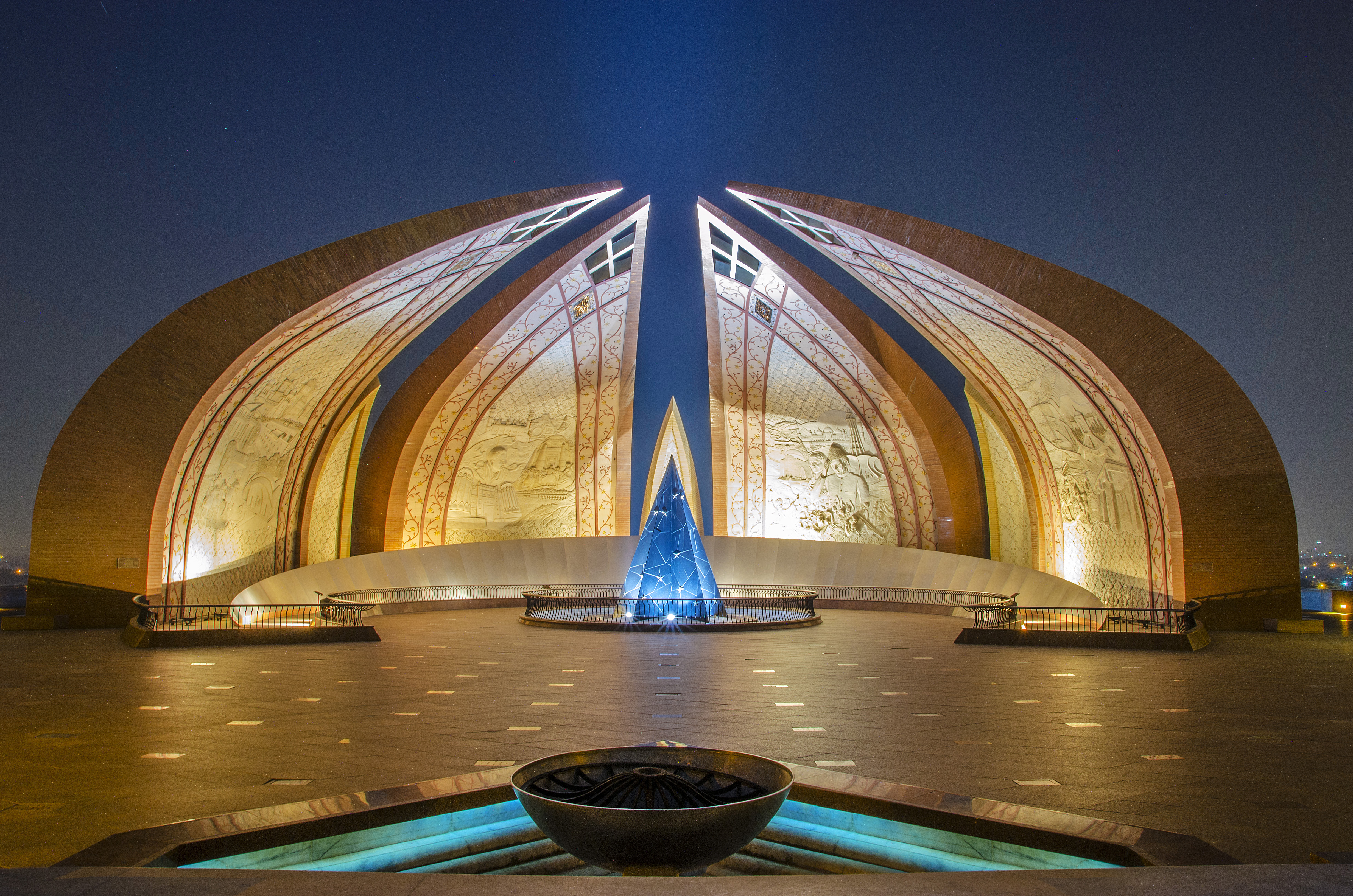 Pakistan Monument This is a photo of a monument in Pakistan identified as the ICT-4